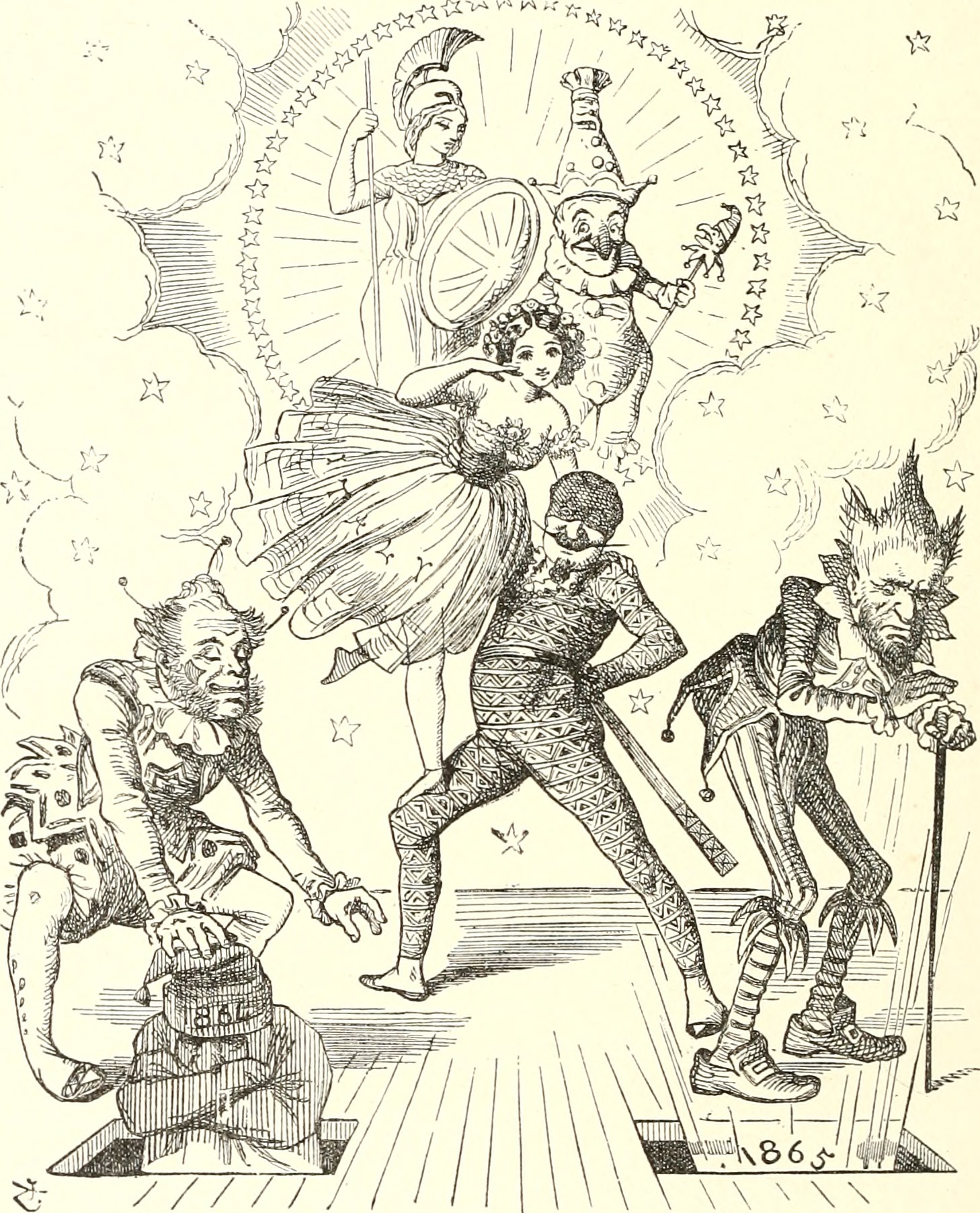 Title: Abraham Lincoln and the London Punch; cartoons, comments and poems, published in the London charivari, during the American Civil War (1861-1865) Year: 1909 (1900s) Authors: Walsh, William Shepard, 1854-1919, ed Subjects: Lincoln, Abraham, 1809-1865 Lincoln, Abraham, 1809-1865 Publisher: New York, Moffat, Yard and Company Text Appearing Before Image: THE FEDERAL PHCENIX. 106 ABRAHAM LINCOLN AND PUNCH, OR THE LONDON CHARIVARI—December 31, 1864. Text Appearing After Image: GRAND TRANSFORMATION SCENE FOR THE END OF THE YEAR 1864. THE LONDON PUNCH 107